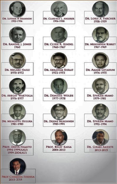 Former Presidents of Haramaya University አማርኛ: ለልማት መሰረት እንጥላለን!